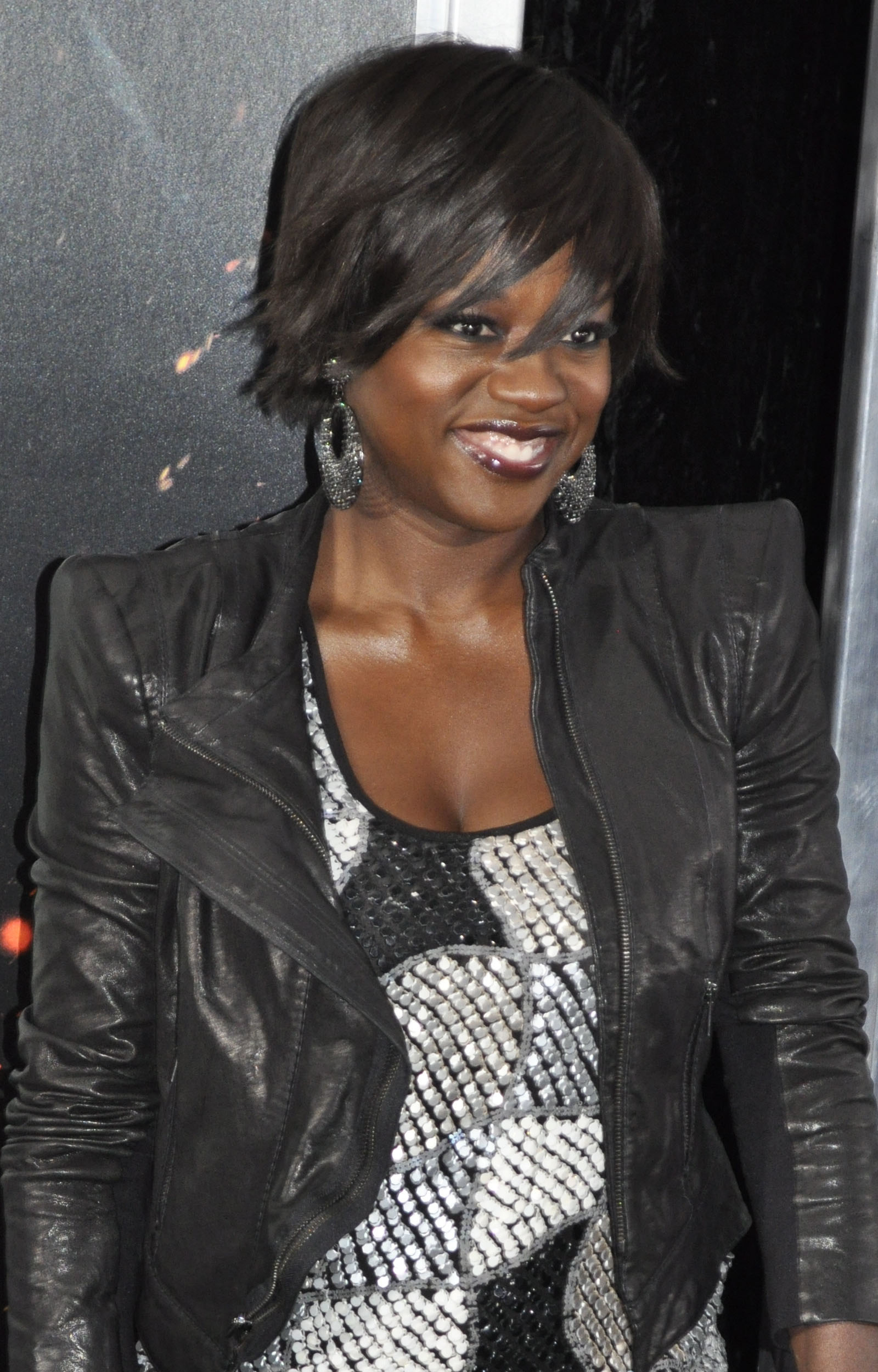 Viola Davis at the film premiere of Harry Potter and The Deathly Hallows in Alice Tully Center, New York City in November 2010.